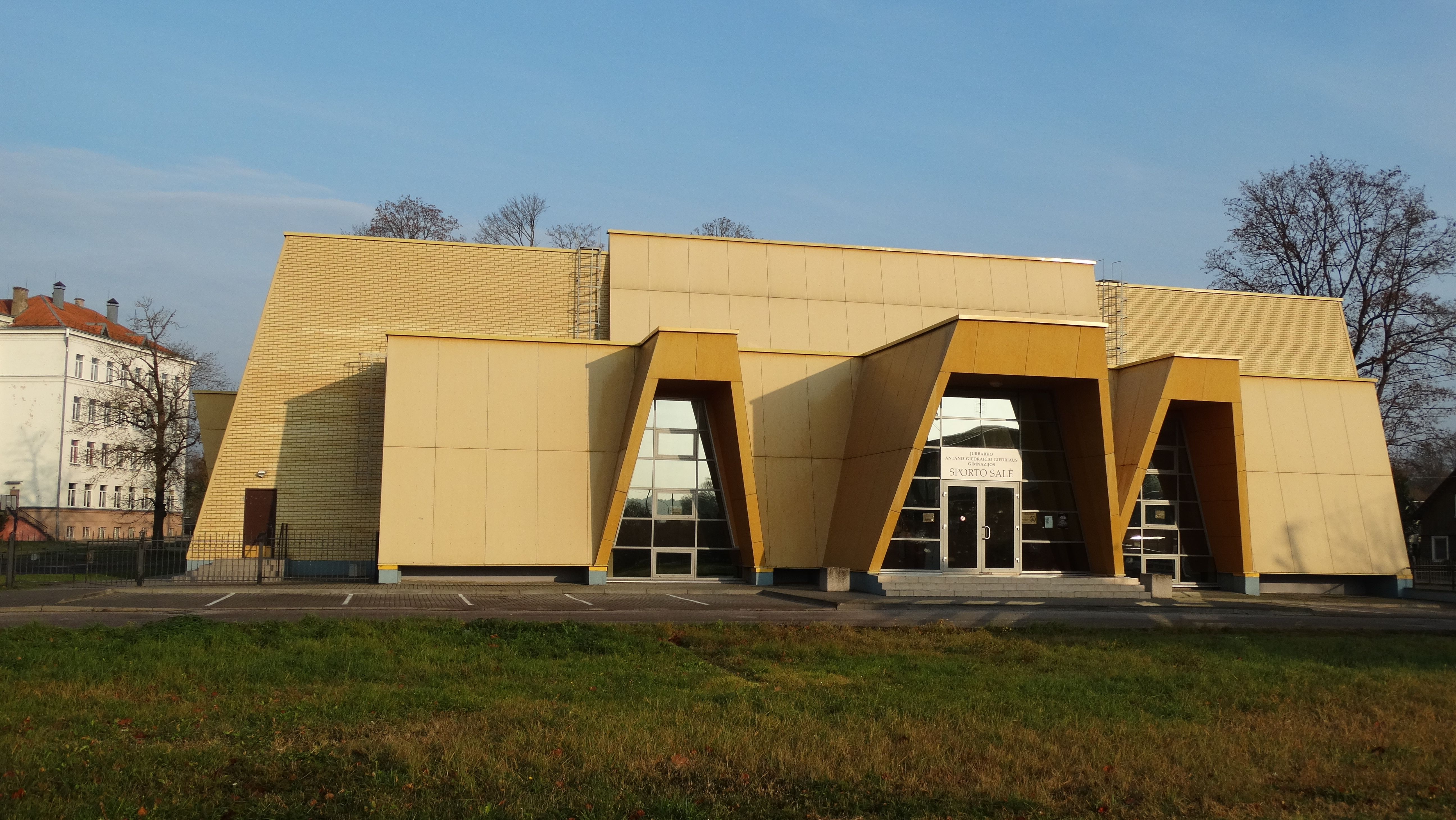 Gymnasium gym, Jurbarkas, Lithuania